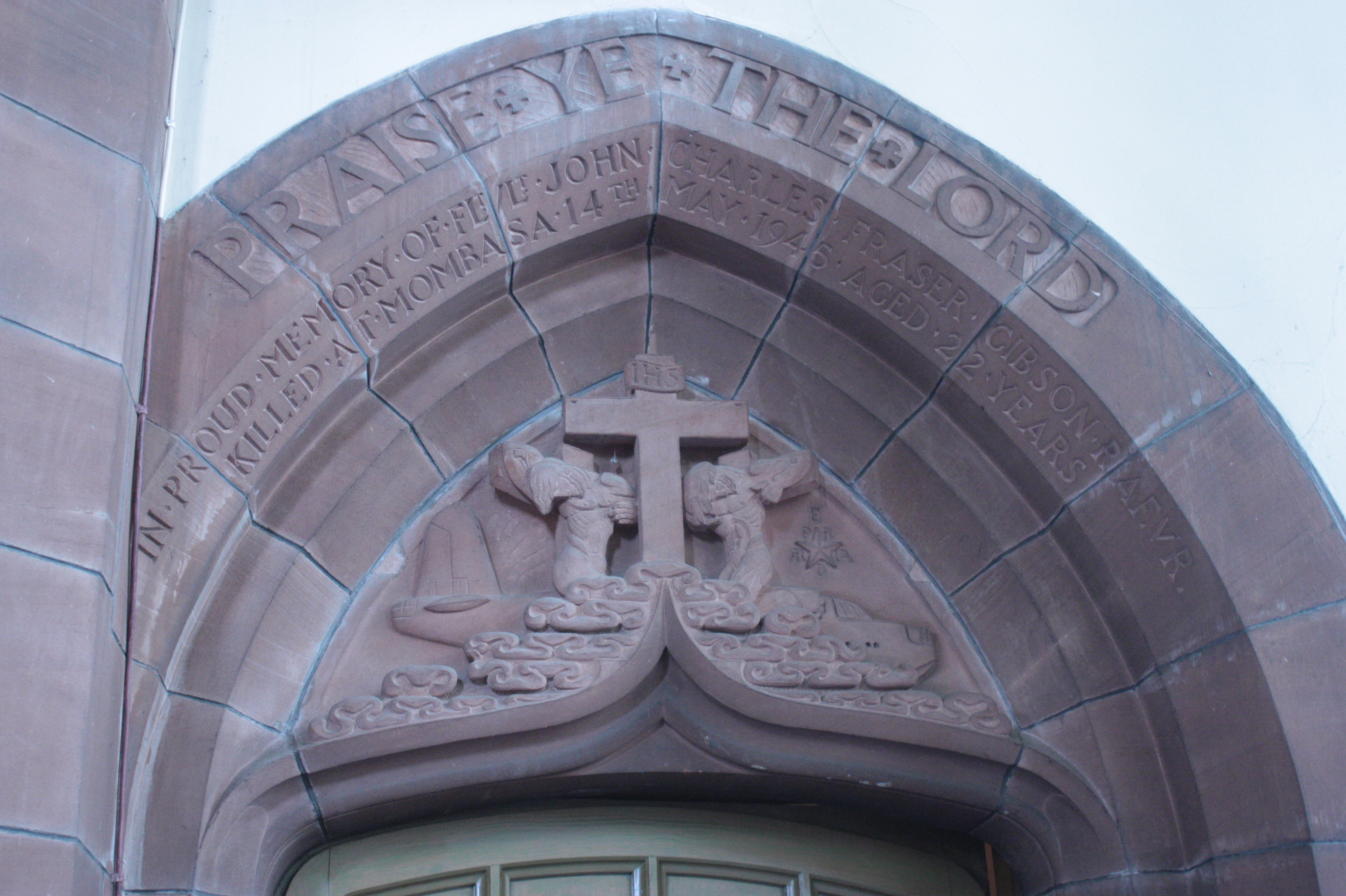 The unusual monument to a plane crash, St. Serfs Church, Ferry Rd Edinburgh, by Pilkington Jackson